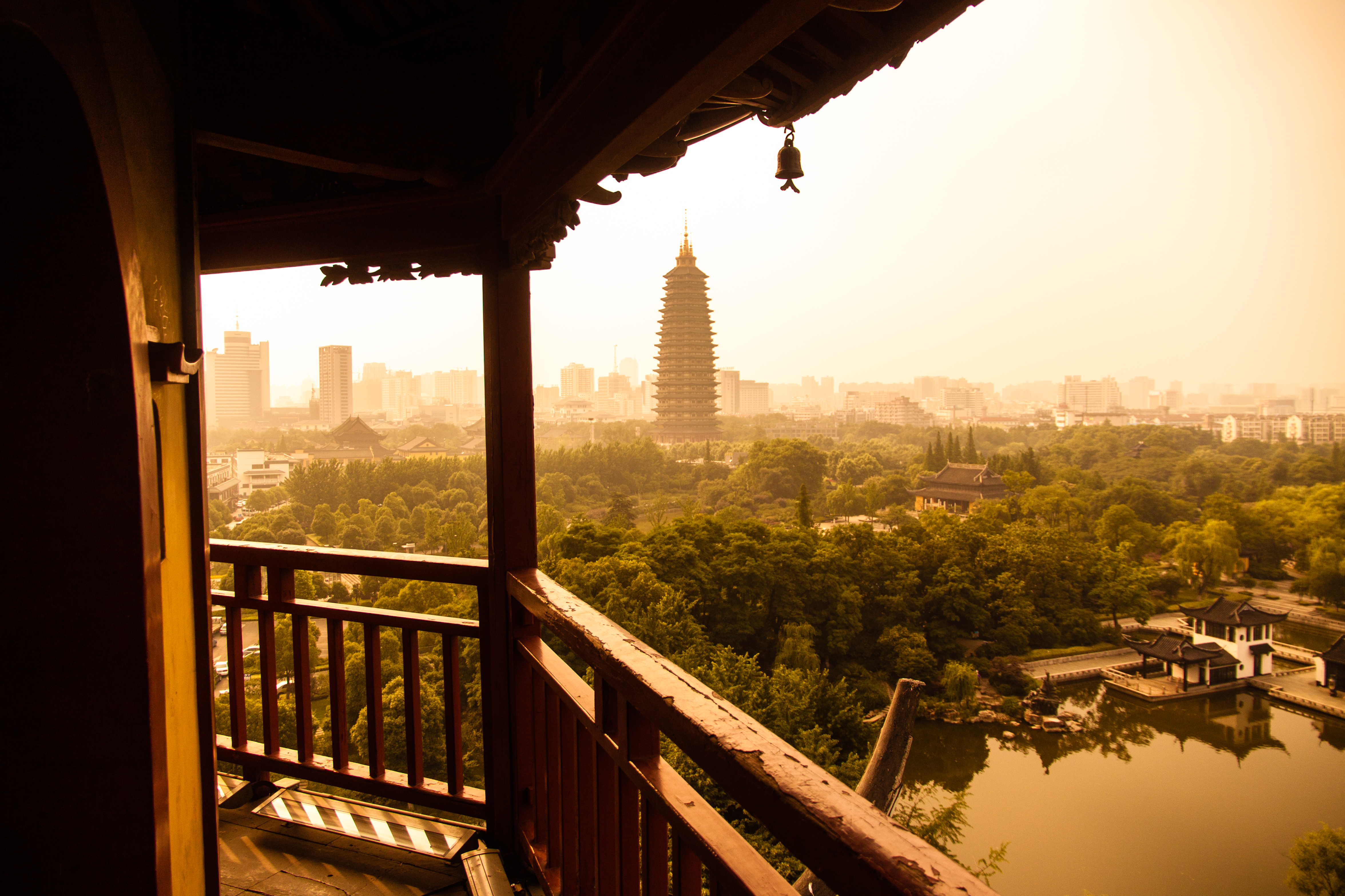 old city district, Changzhou, China